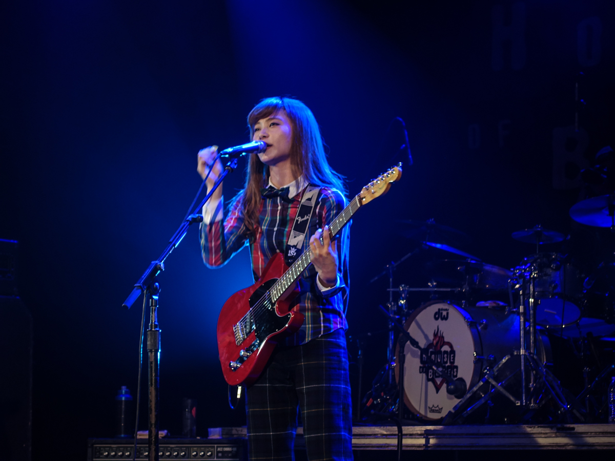 SCANDAL